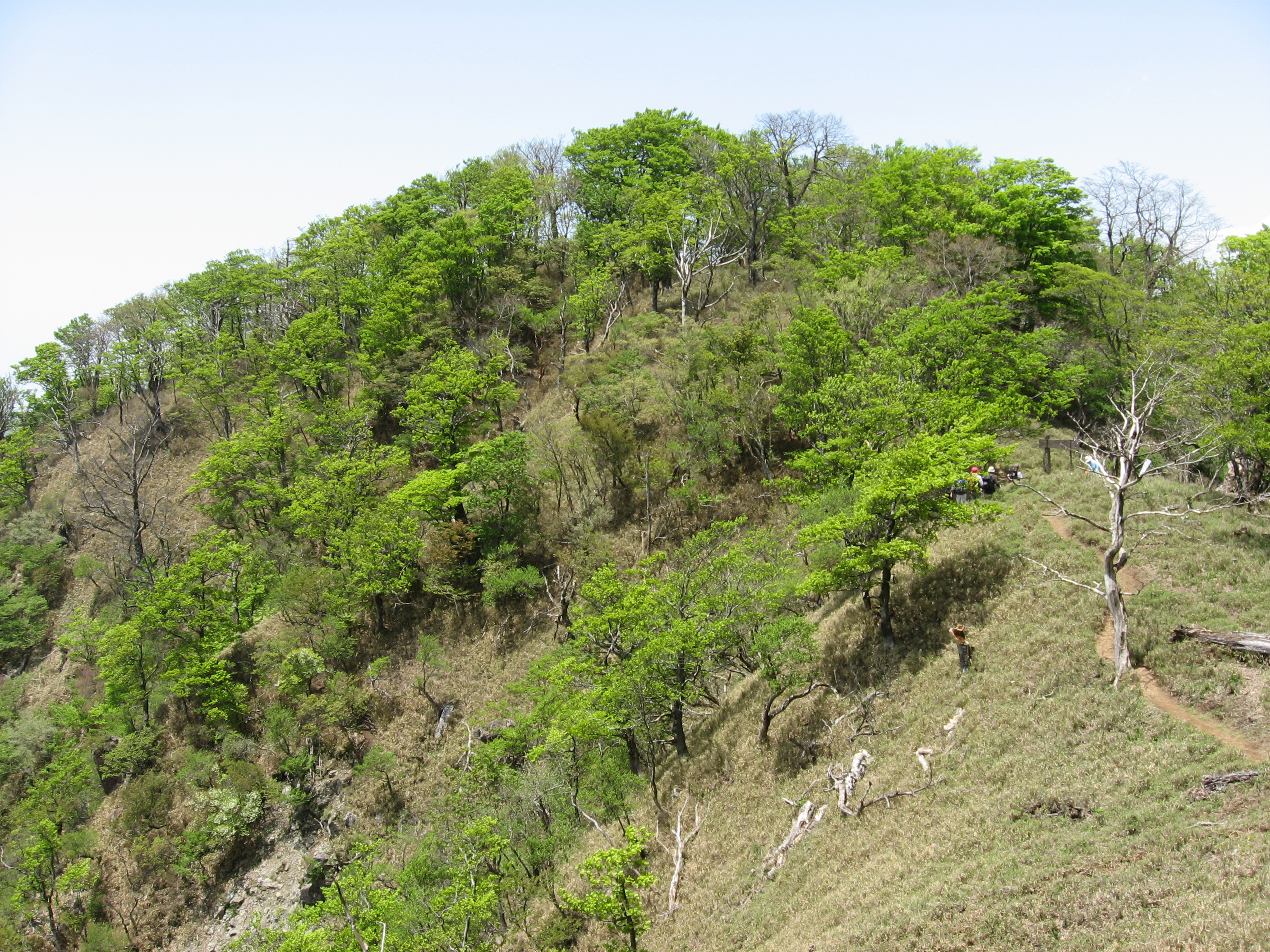 Mount Kumasasanomine in Tanzawa Mountains, Kanagawa Prefectures, Japan.